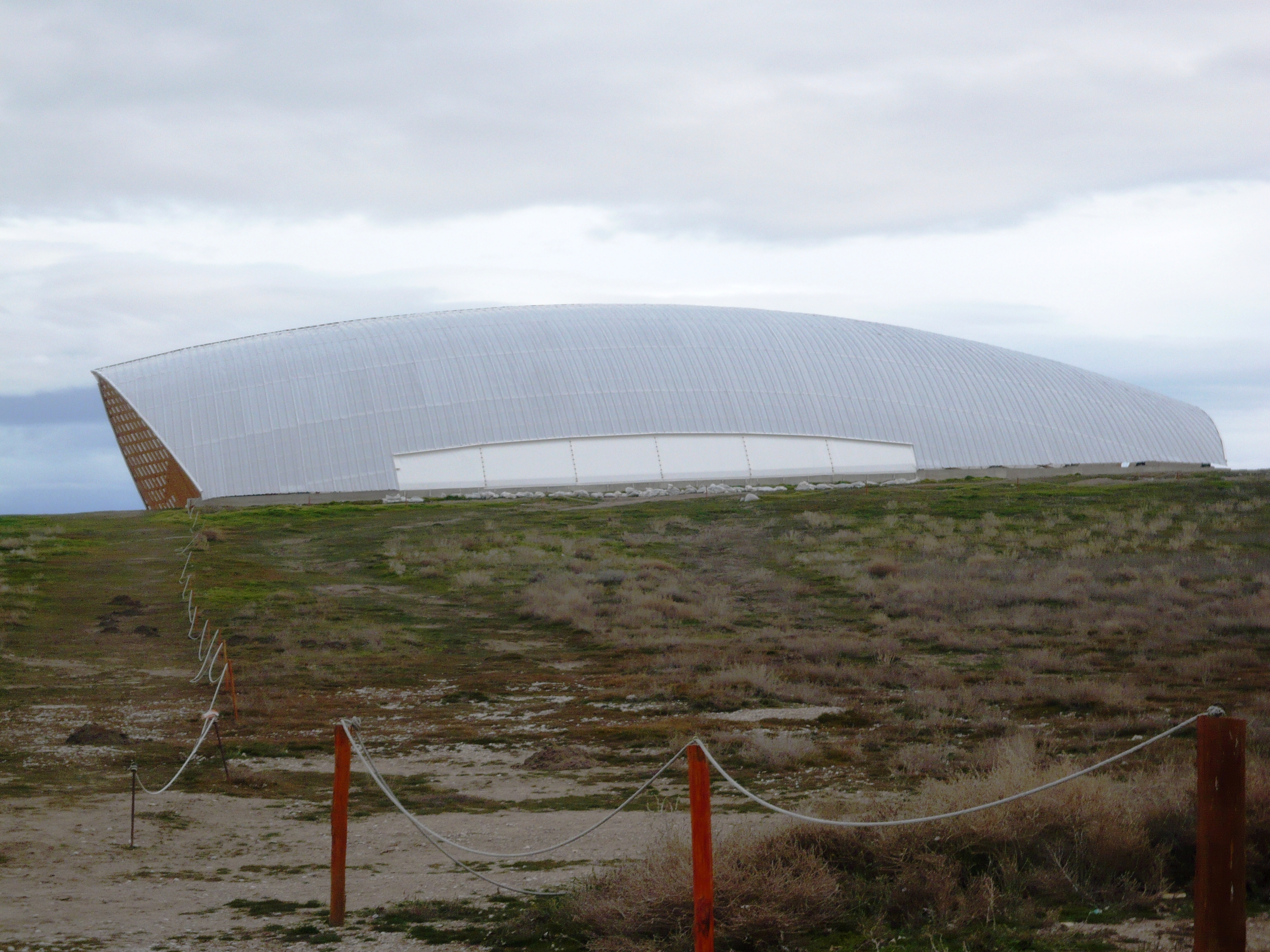 Catalhoyuk , Konya-Turkey